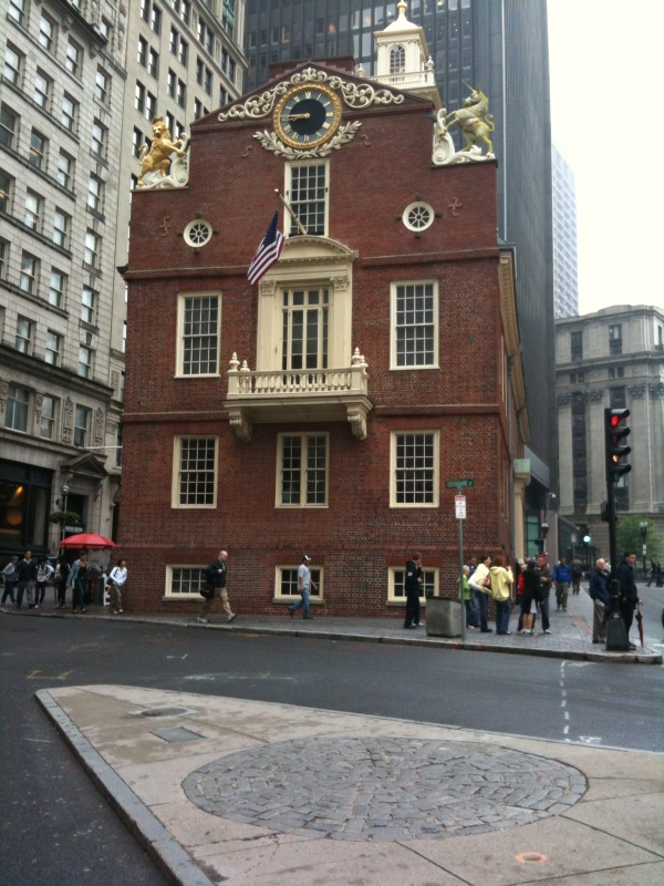 the stone circle (pictured) in front of The Old State House is the location of the Boston Massacre.